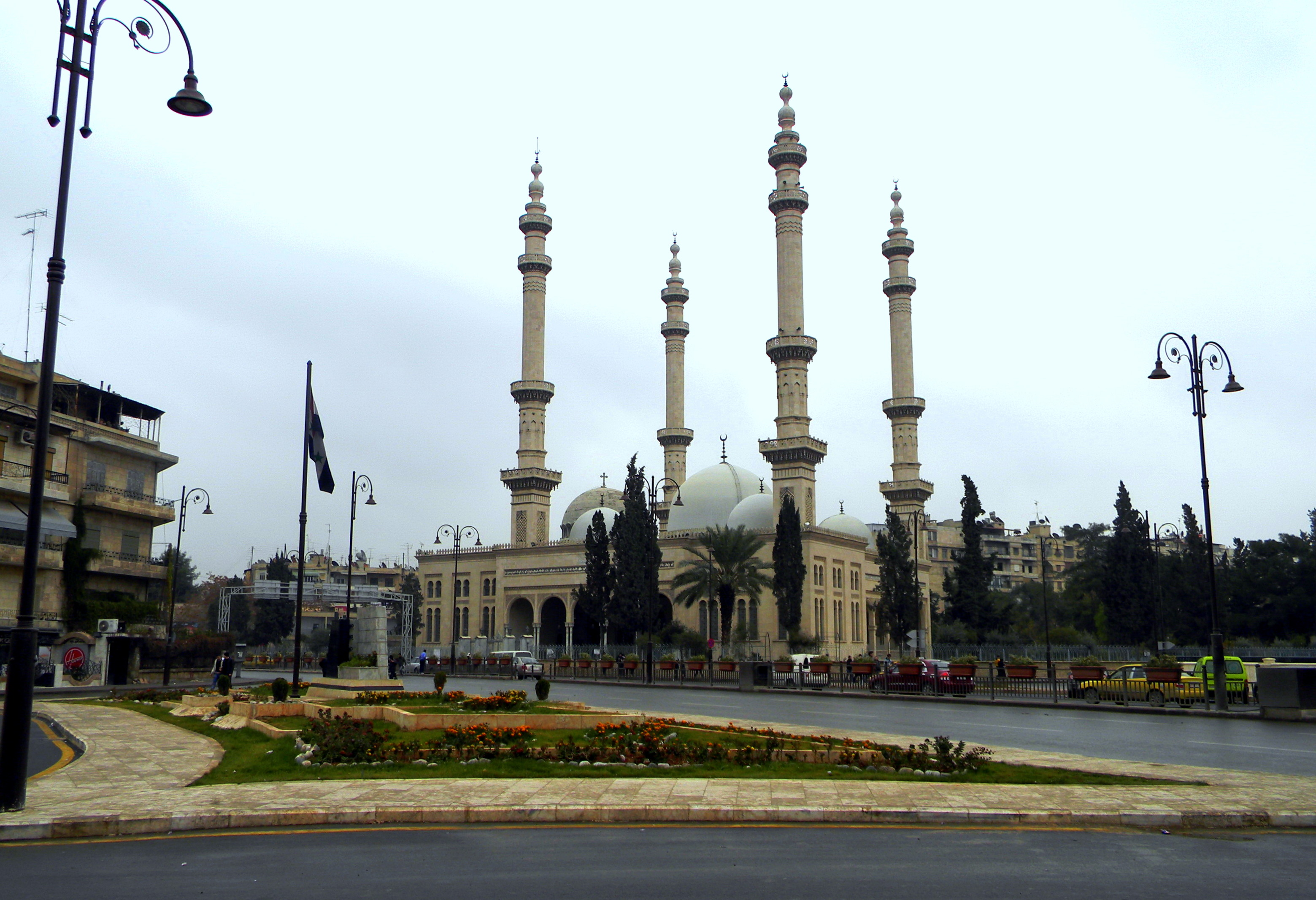 The Tawhid Mosque and Saint George's Church after a rainy day in Aleppo.